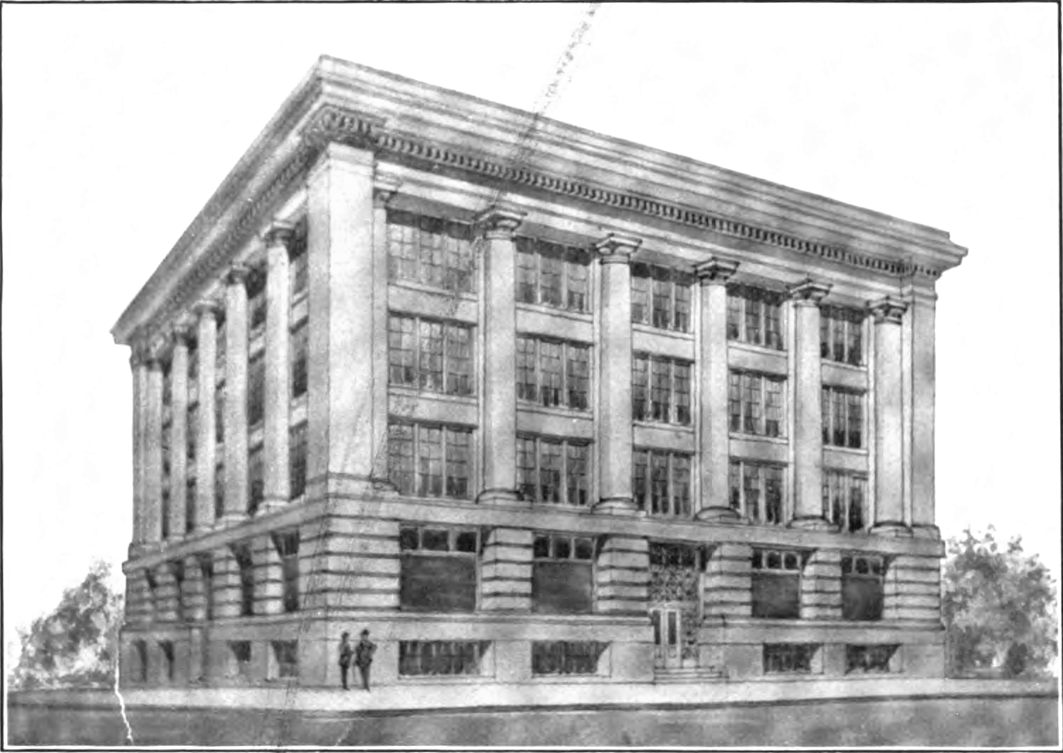 Drawing of the then under construction building for the North Pacific College in Portland, Oregon.